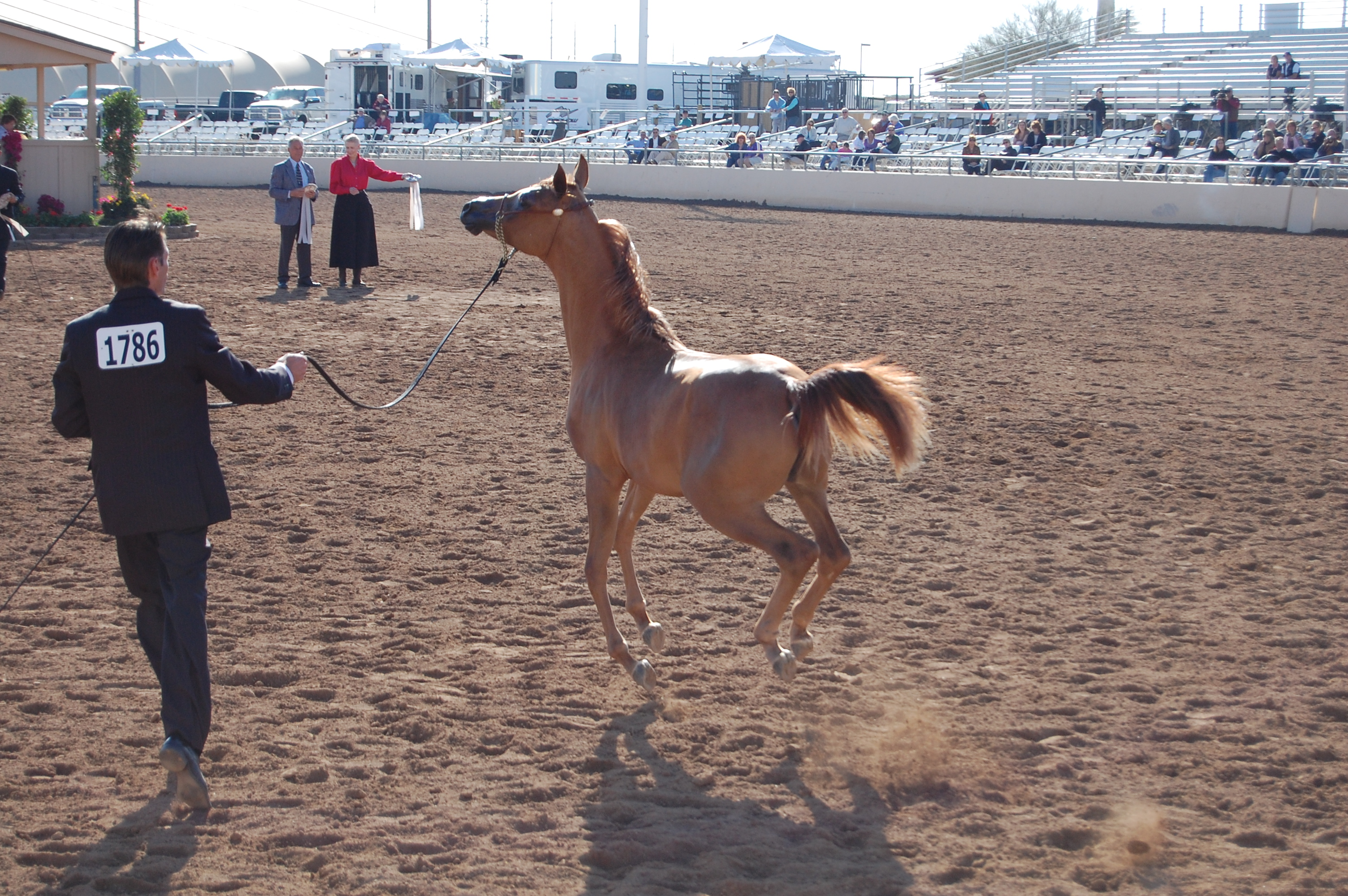 arabianhorseshow1 1096